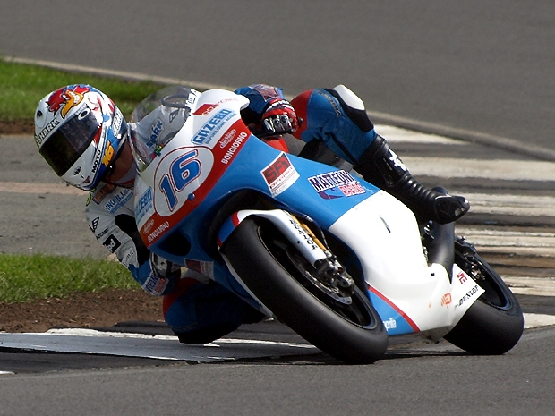 Jules Cluzel, Matteoni Racing 250cc